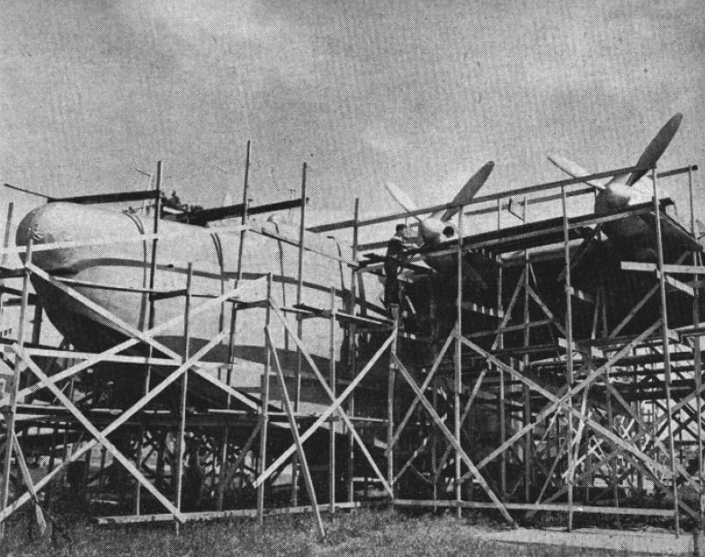 A captured Japanese Kawanishi H8K2 (Allied code name Emily) is put to mothballs at the Naval Air Station Norfolk, Virginia (USA), in 1949.